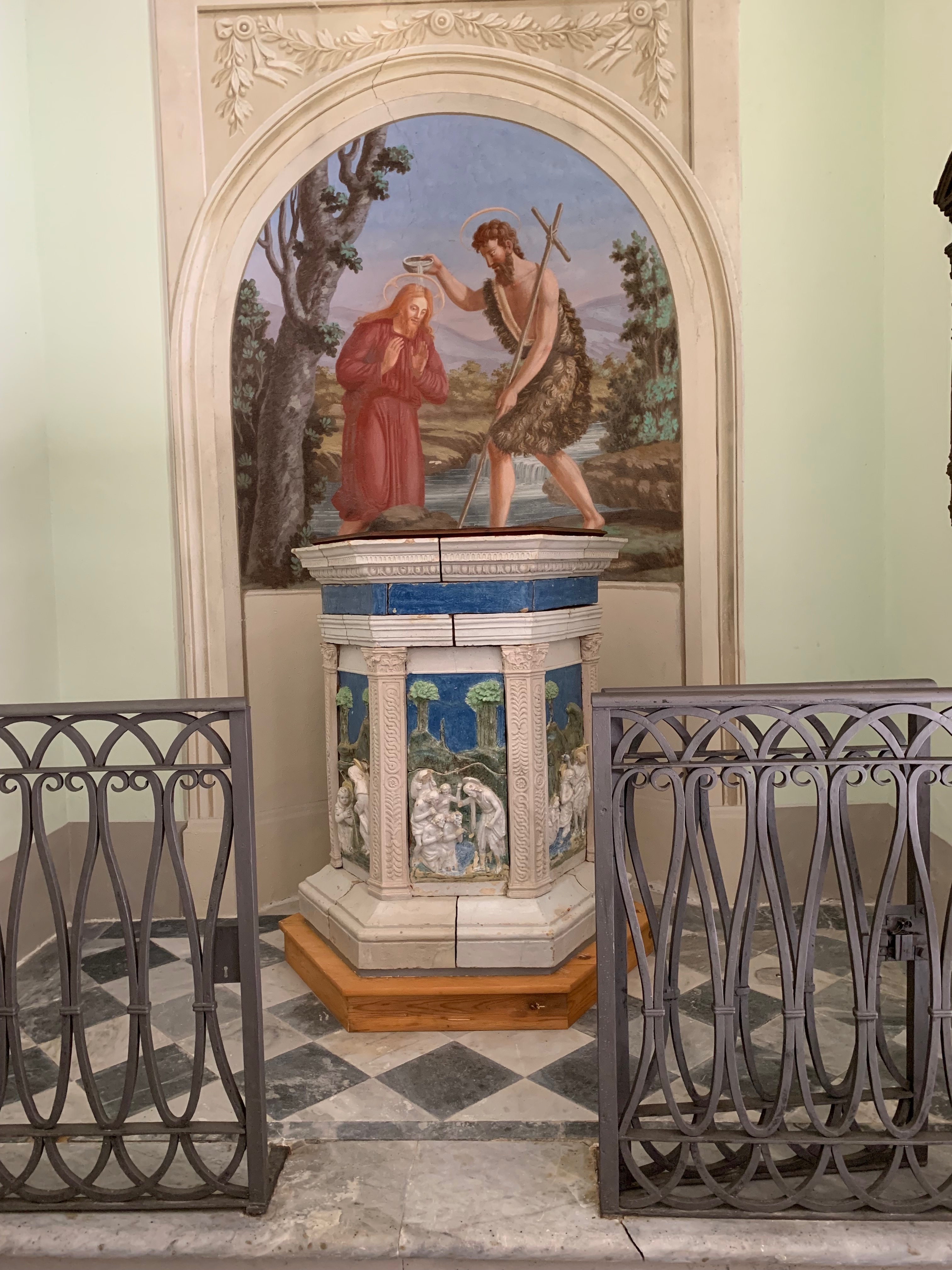 Baptismal font. Work by Santi Buglioni. Pieve di Santa Maria novella in Chianti (Radda in Chianti)